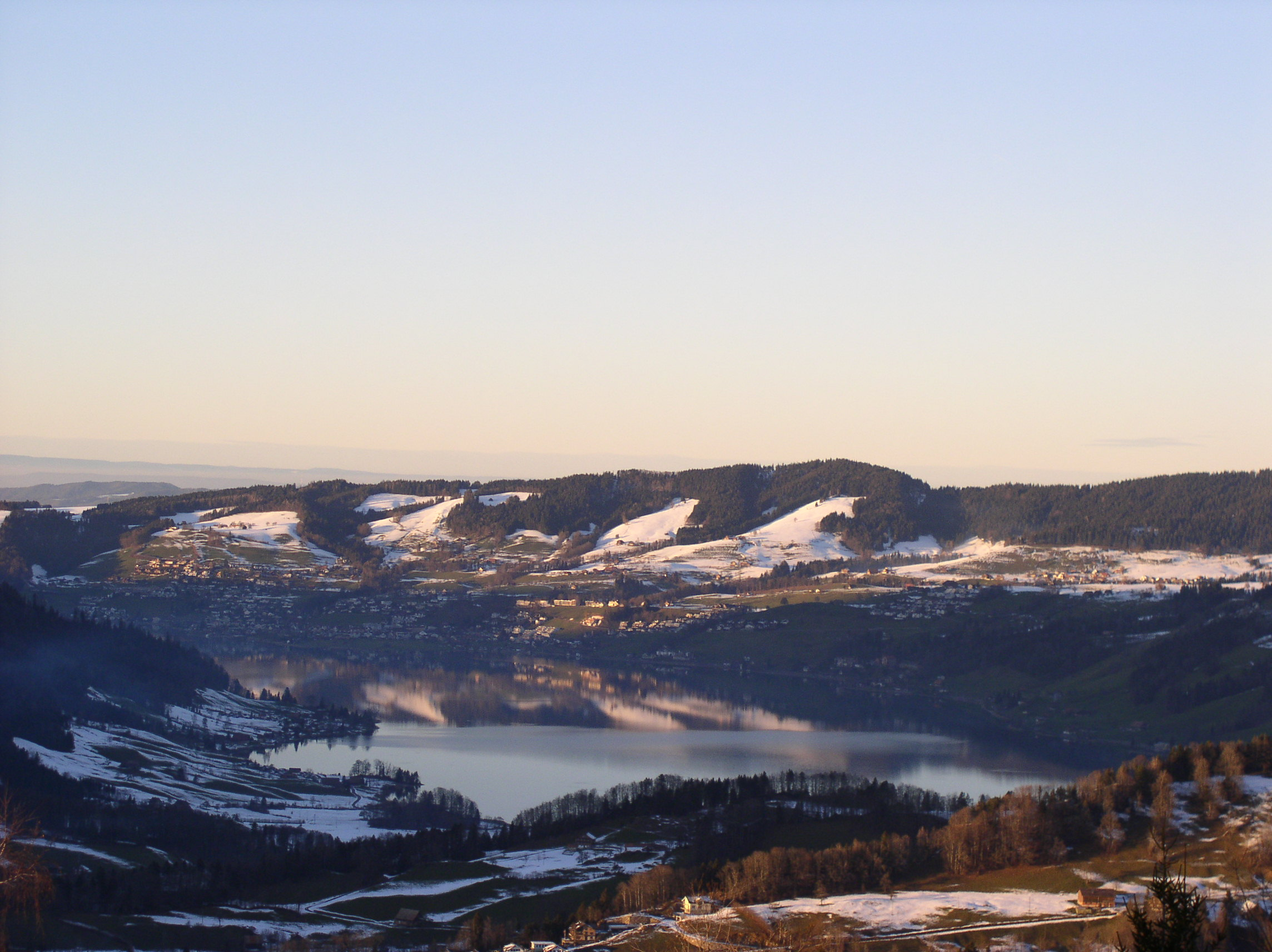 Description: Blick vom Mostelberg auf den Ägerisee Source: photo taken by me, January 2005 Photographer: Baikonur